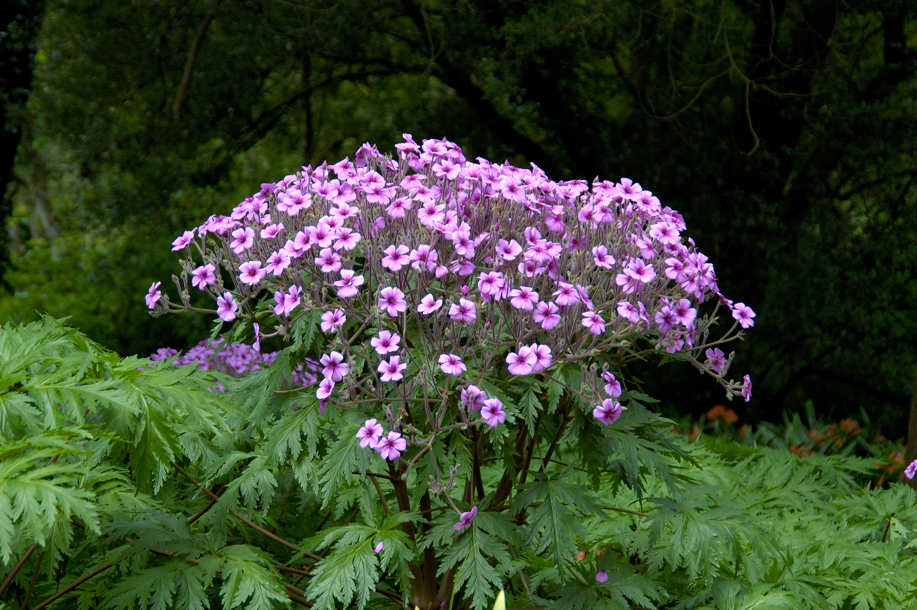 Geranium maderense, growing in Golden Gate Park, San Francisco, California, USA.